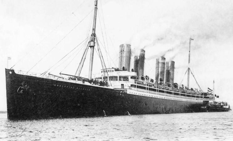 The SS Kronprinz Wilhelm of NDL with a tender